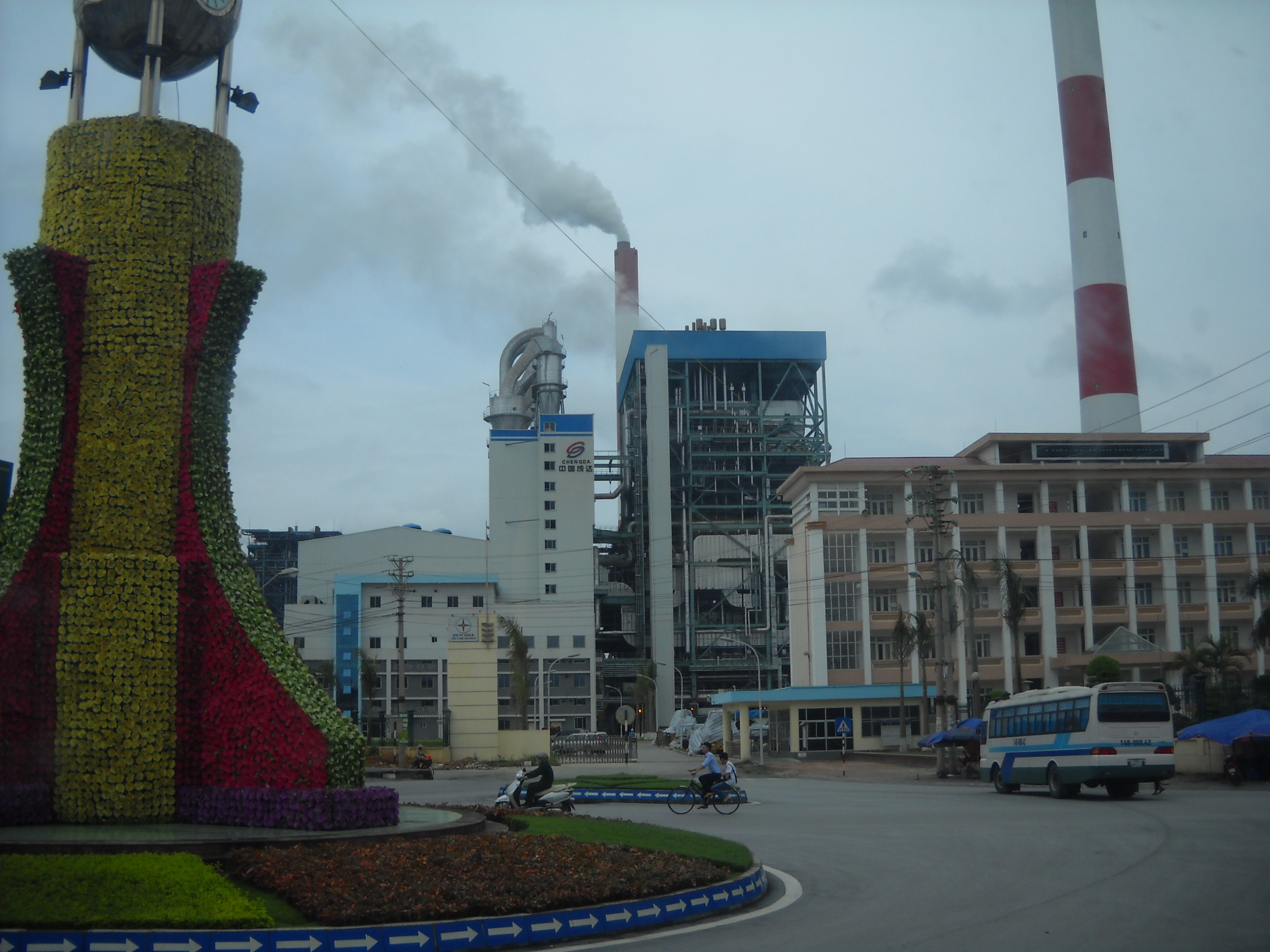 A thermal power plant in Uông Bí